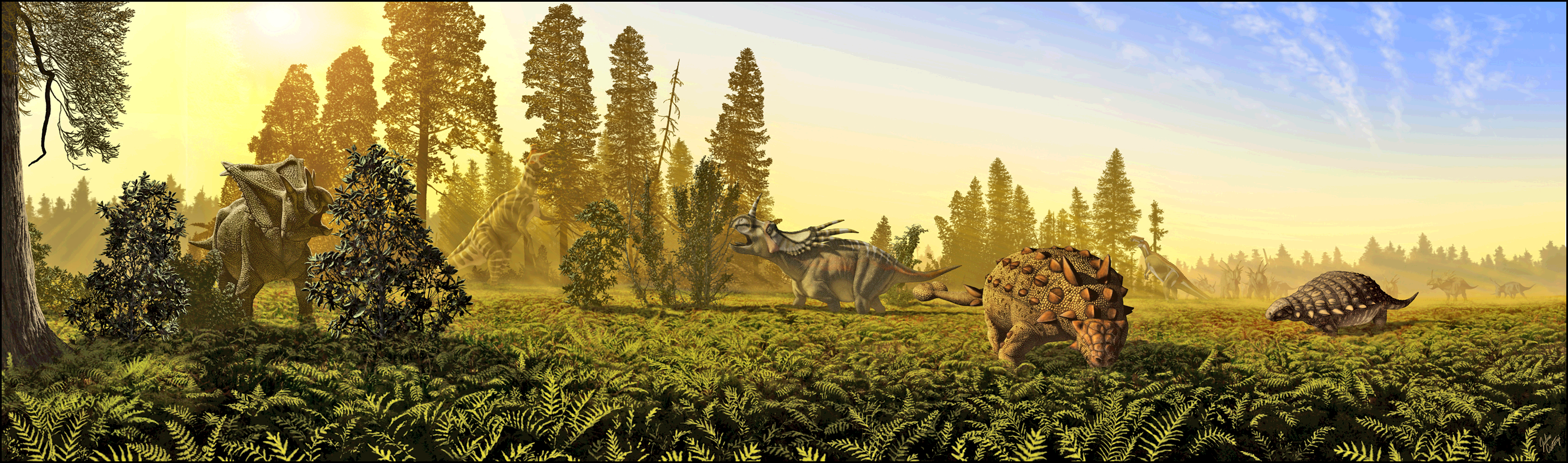 Depiction of dietary niche partitioning among megaherbivorous dinosaurs from the DPF (MAZ-2). Left to right: Chasmosaurus belli, Lambeosaurus lambei, Styracosaurus albertensis, Scolosaurus cutleri (formerly sunk in Euoplocephalus tutus), Prosaurolophus maximus, Panoplosaurus mirus. A herd of S. albertensis looms in the background.